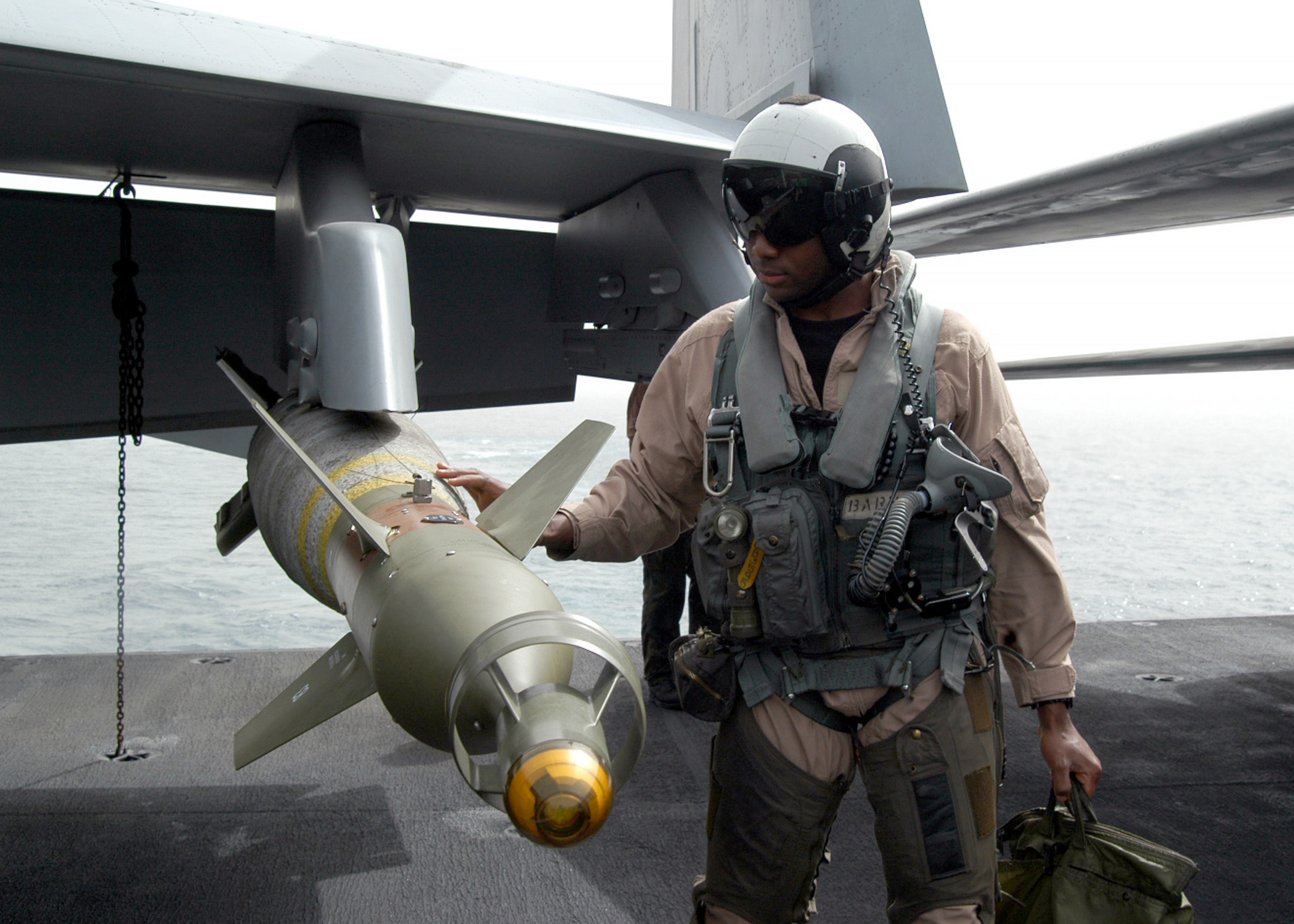 Arabian Gulf (Mar. 21, 2003) -- A Naval Aviator conducts a preflight inspection of precision guided ordnance on an F/A-18E Super Hornet aboard USS Abraham Lincoln (CVN 72). Lincoln and her embarked Carrier Air Wing Fourteen (CVW-14) are conducting combat operations in support of Operation Iraqi Freedom. U.S. Navy photo by Photographer's Mate 3rd Class Philip A. McDaniel. (RELEASED)